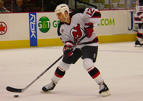 Image (Source) taken by flickr user C.P.Storm, licensed under a creative commons attribution 2.0 license